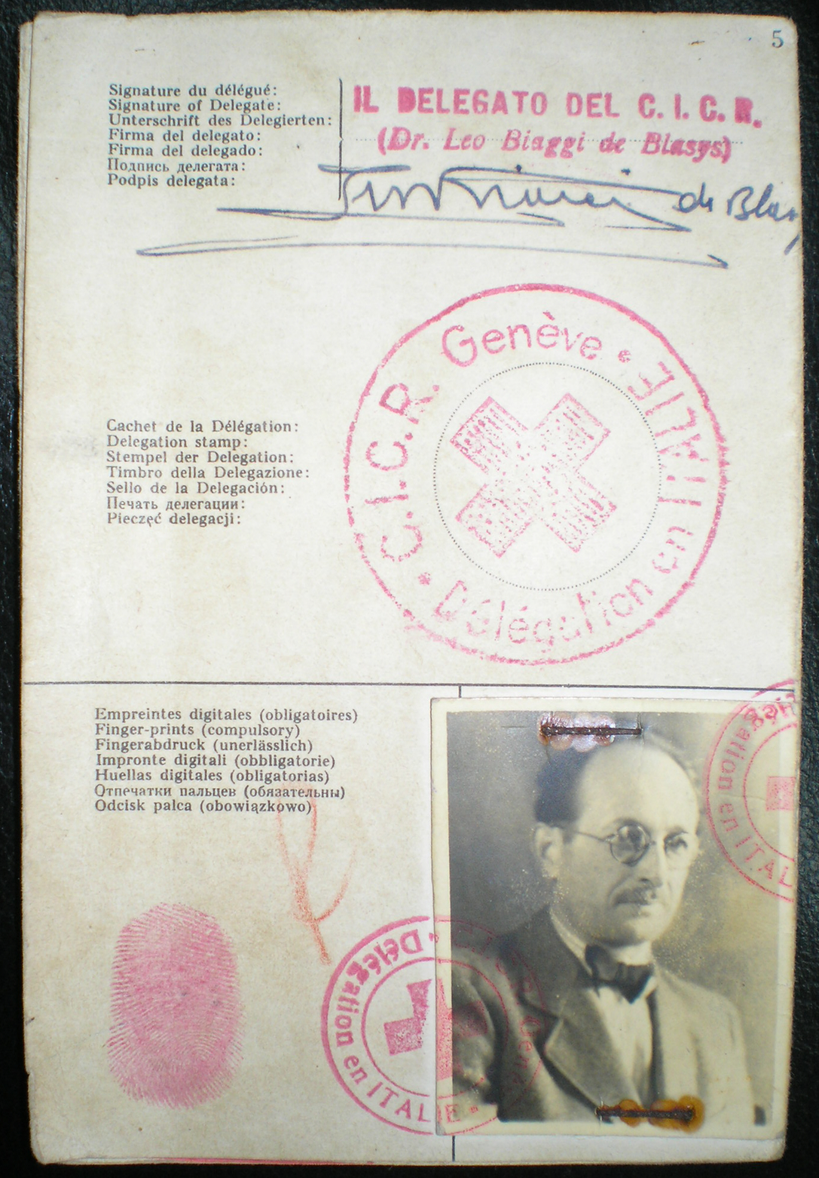 The Red Cross identitity document Adolf Eichmann used to enter Argentina under the alias Ricardo Klement in 1950, issued by the Italian delegation of the Red Cross in Genoa, Italy.